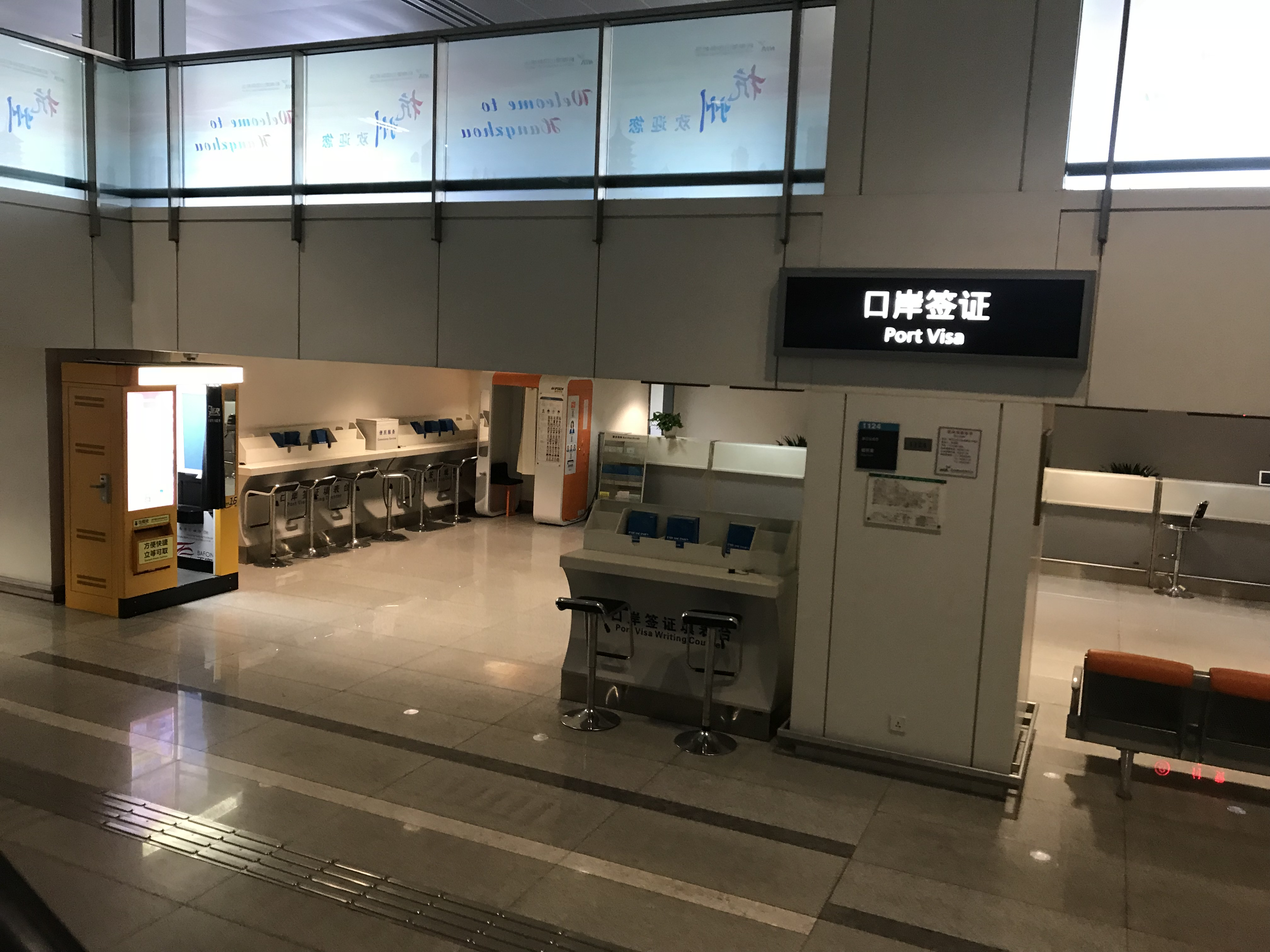 201805 Port Visa processing area at HGH T2